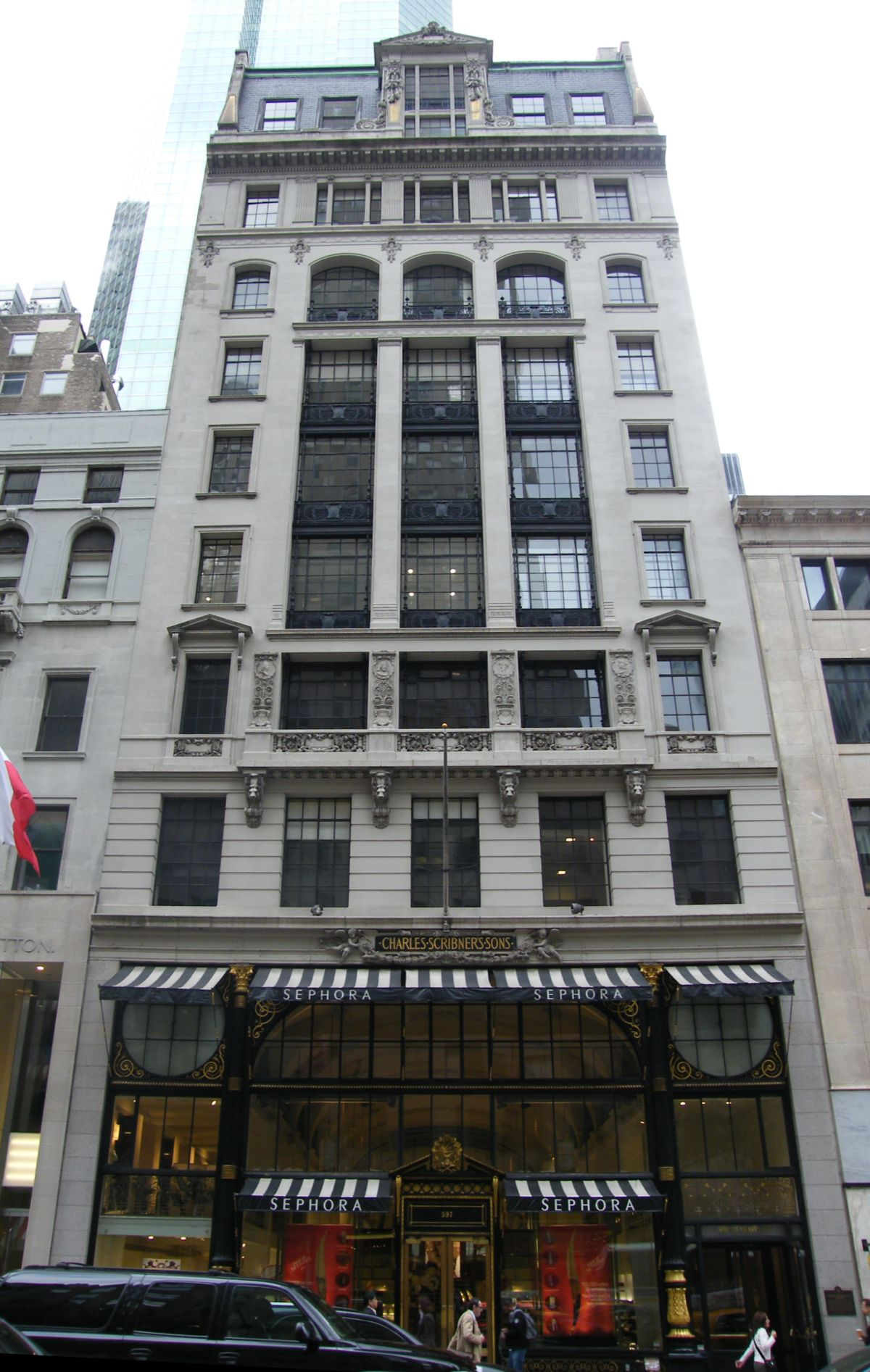 Scribner Building. 597 Fifth Avenue, Manhattan, New York City.